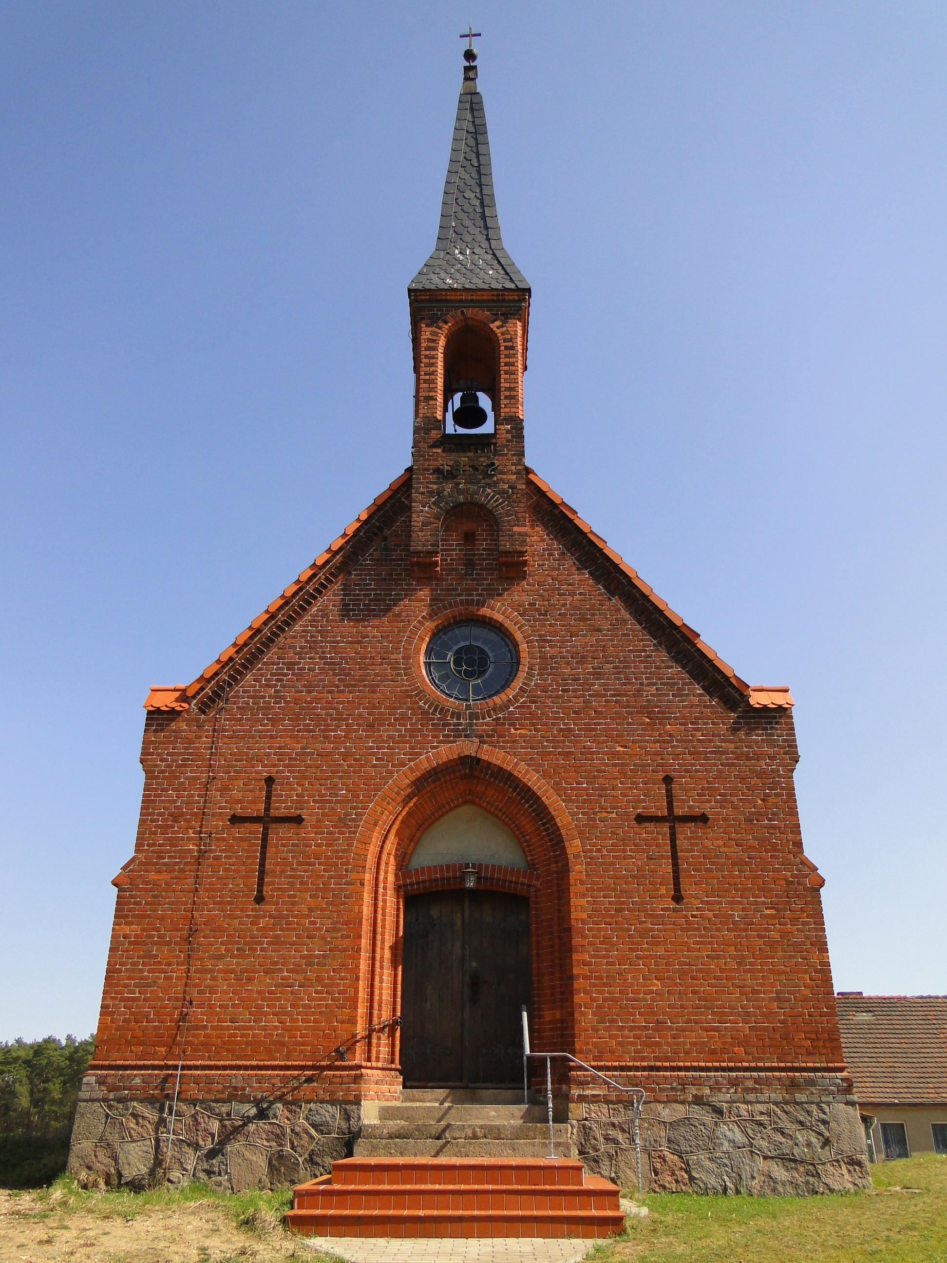 Church in Drosedow, disctrict Mecklenburg-Strelitz, Mecklenburg-Vorpommern, Germany